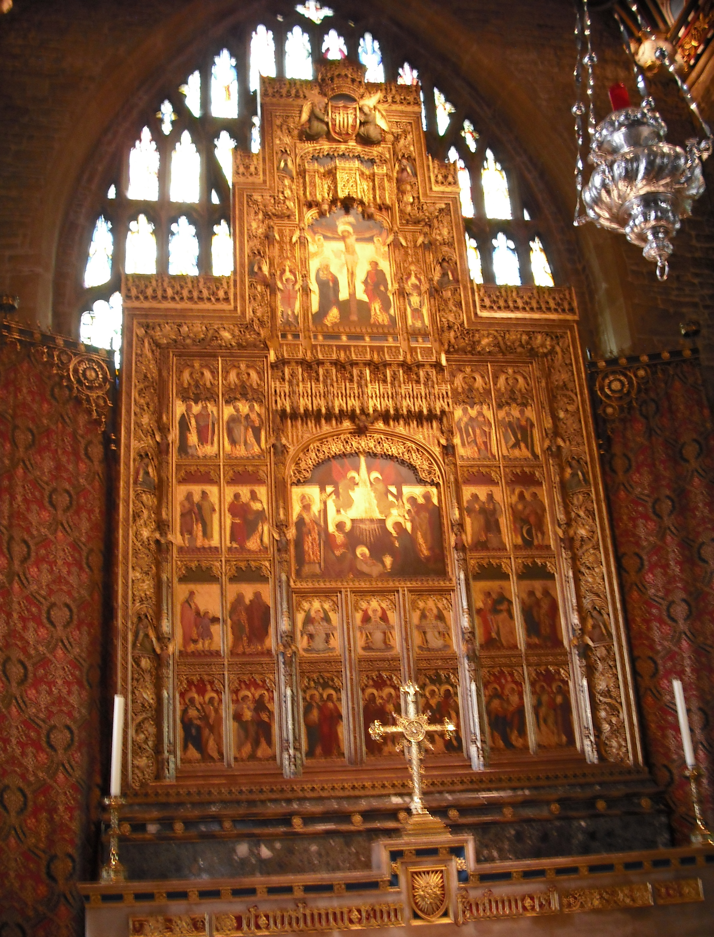 St Wulfram's Church, Grantham - the reredos painted by Charles Floyce